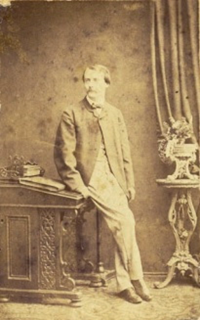 Portrait of Francis Guthrie, South African mathematician and botanist